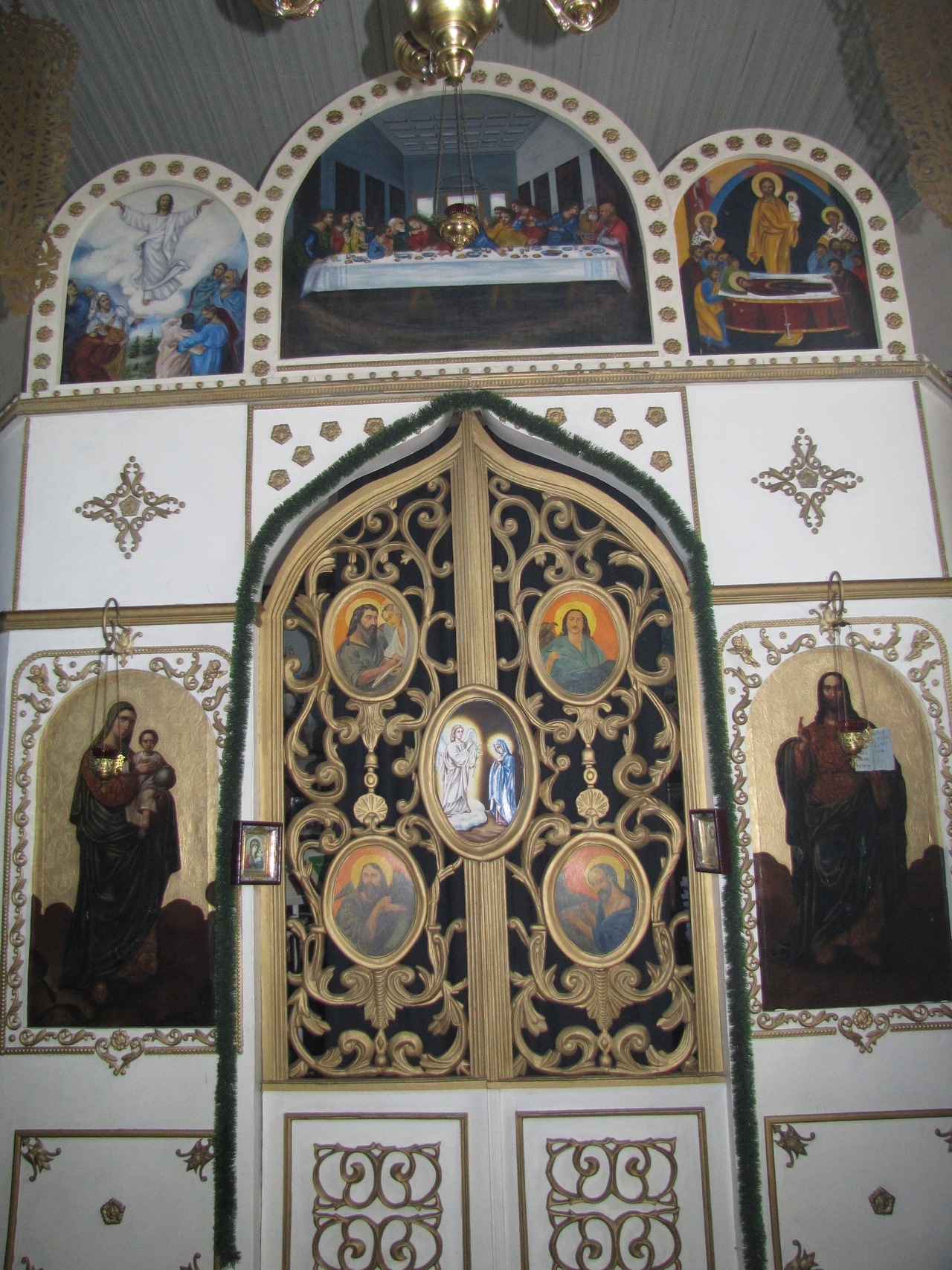 Church of St. Nicholas (Zasimavichy, Pruzhany district, Brest region, Belarus) This is a photo of Belarusian heritage monument. Reference number: 113Г000608 ( WLM)